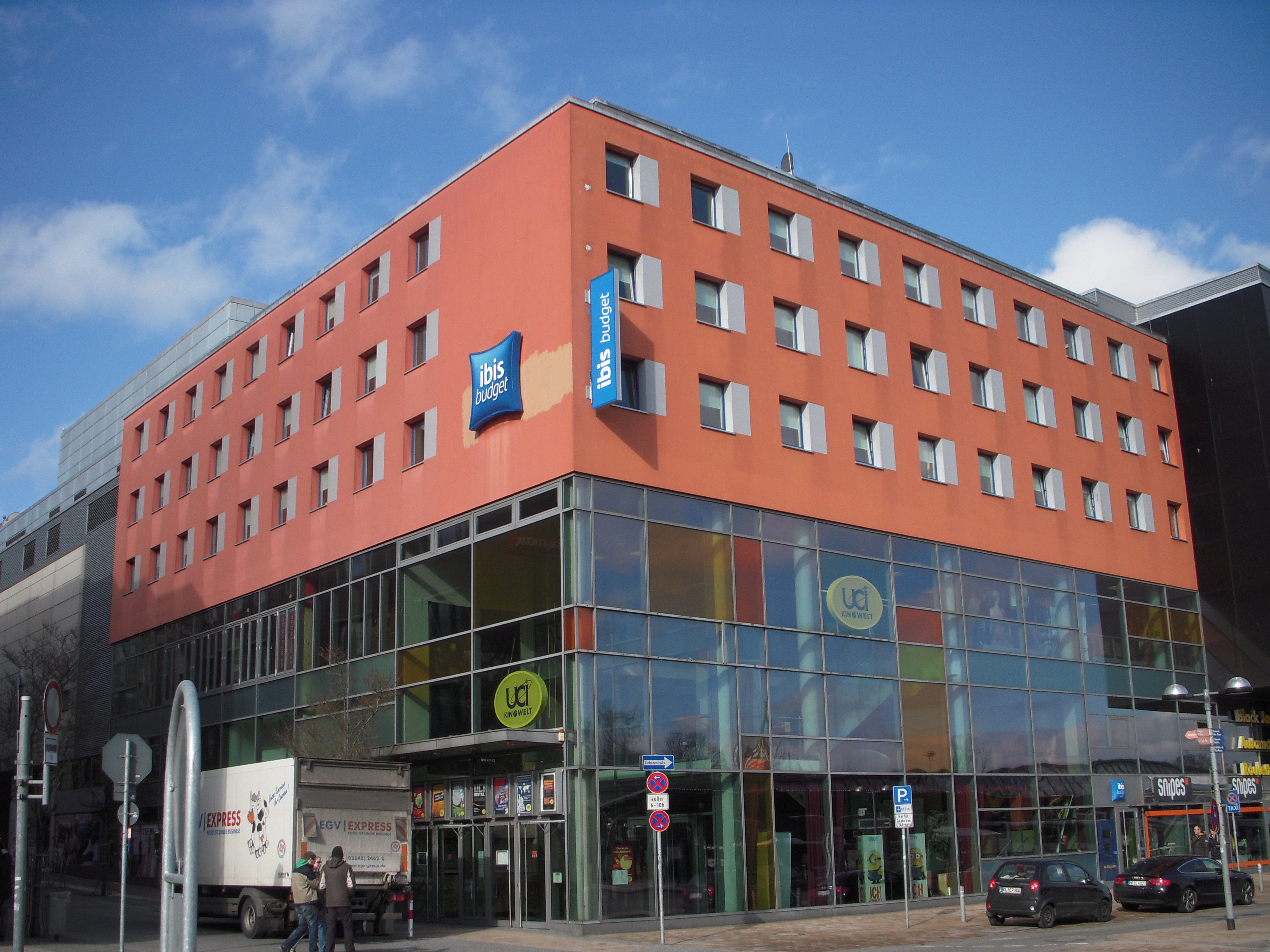 Ibis Budget Hotel in Flensburg City (form. Etap Hotel), march 2013